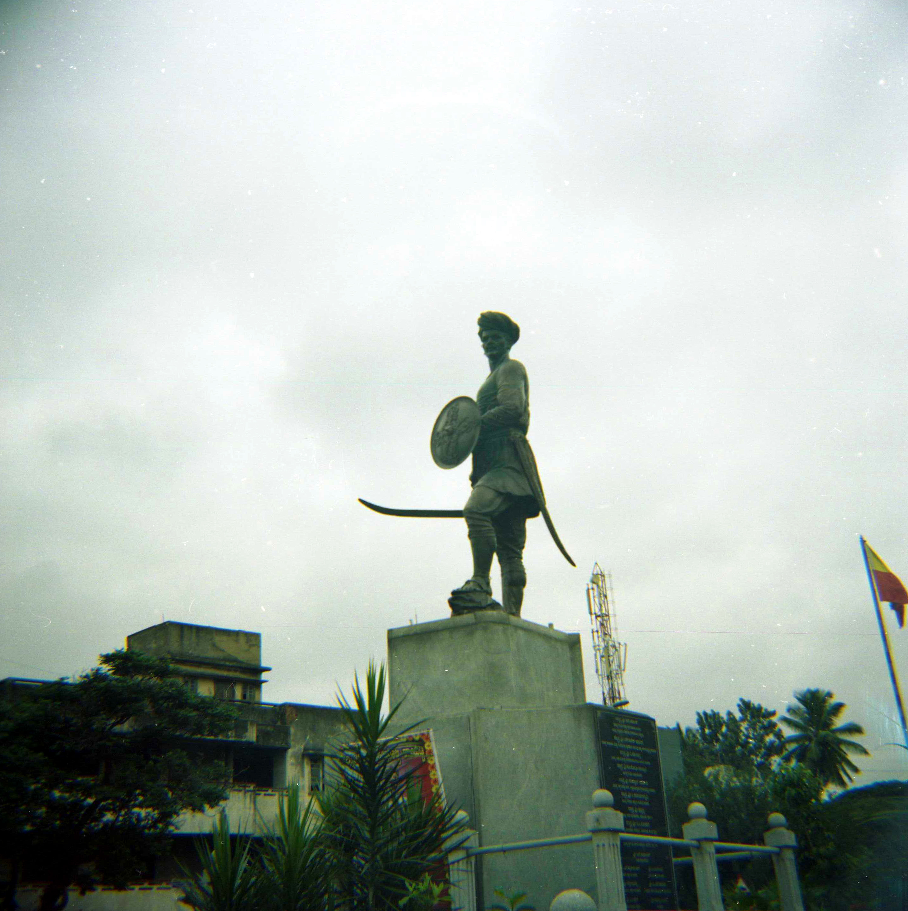 Krantiveera Sangolli Rayanna 1